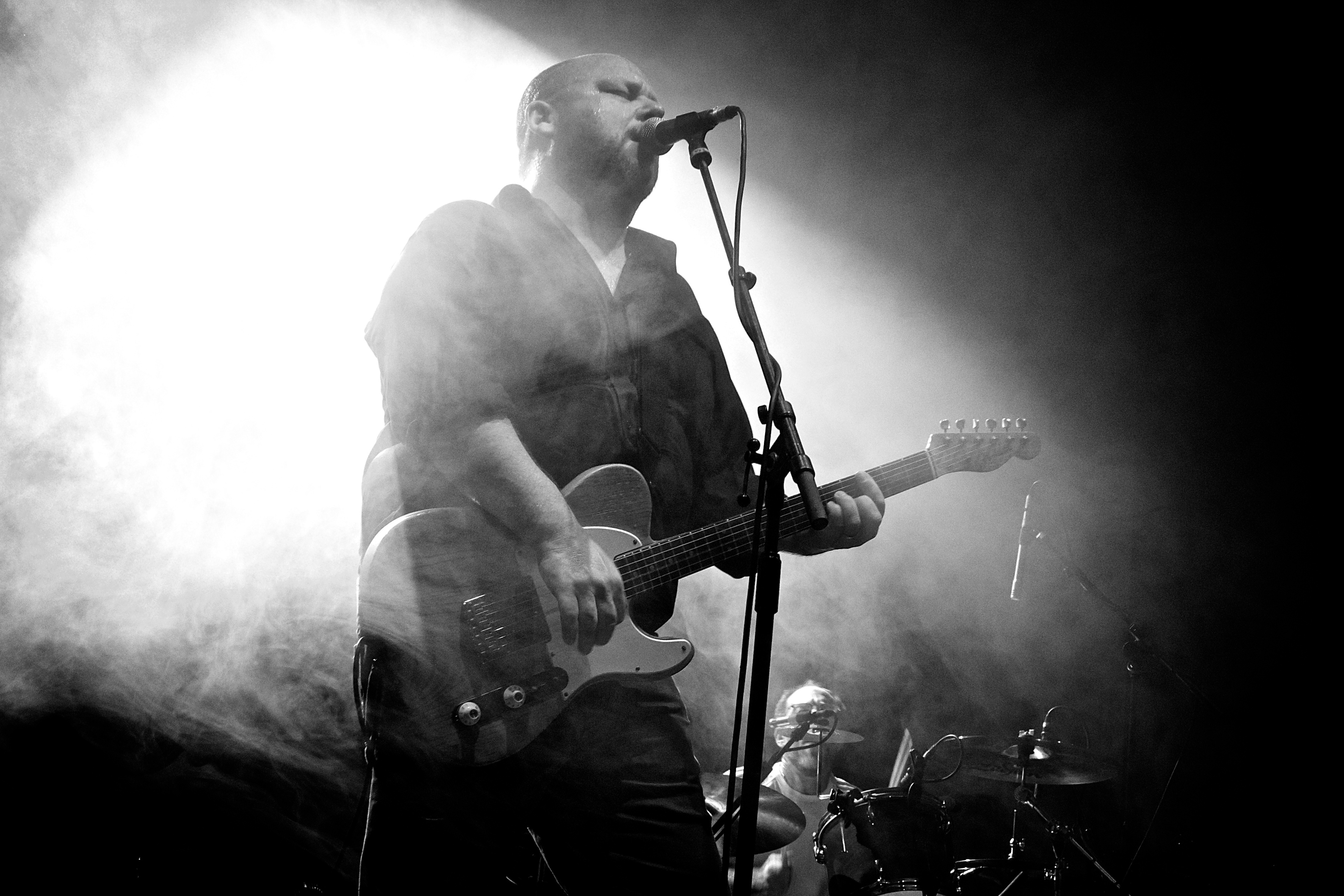 Black Francis from Pixies at Troxy in London.